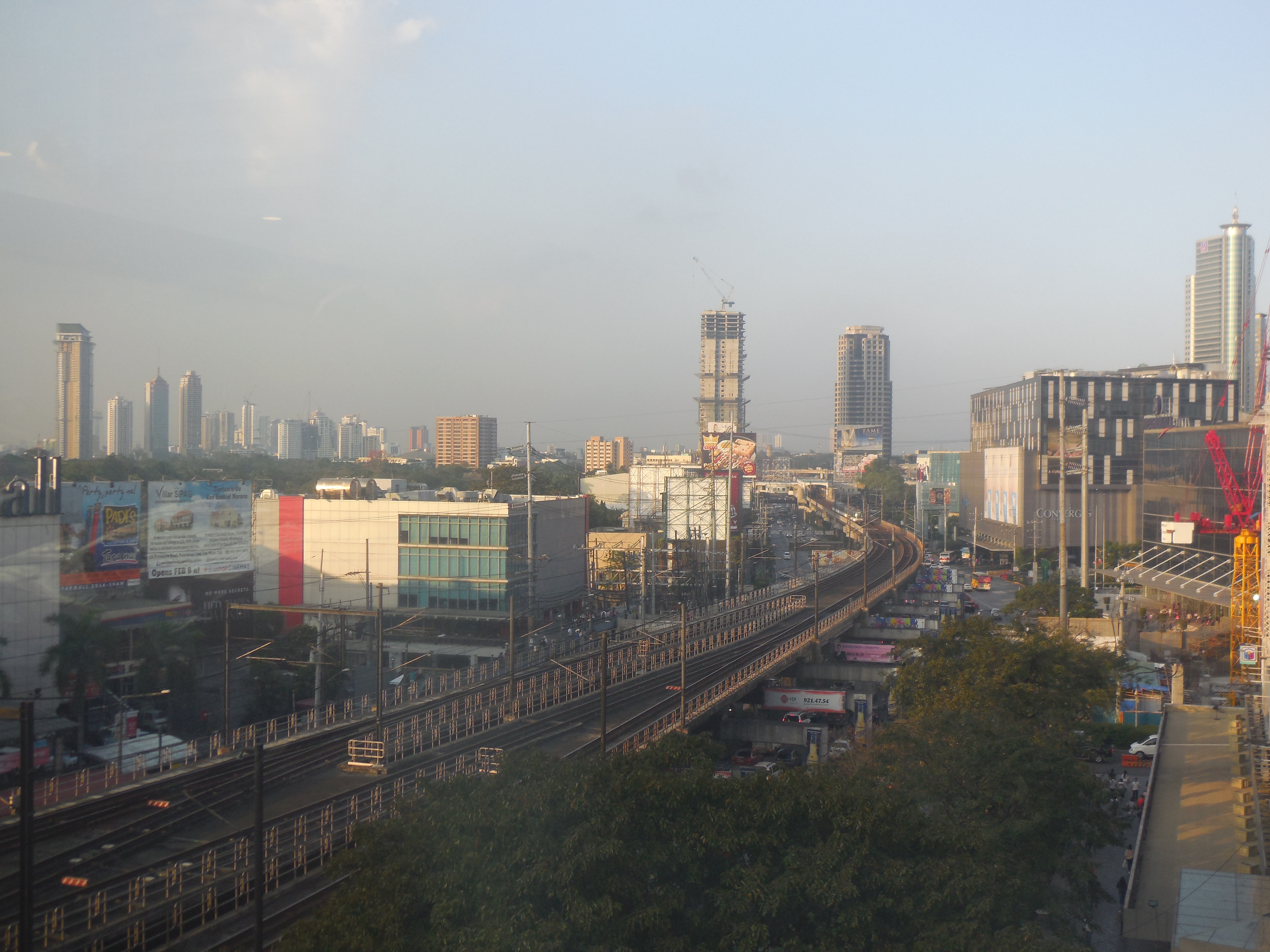 Photo shows the stretch of Epifanio de los Santos Avenue in Mandaluyong City with the MRT on the foreground as well as shopping malls like Starmall (foreground, left) and SM Megamall (right). Photo taken from Shangri-La Mall.